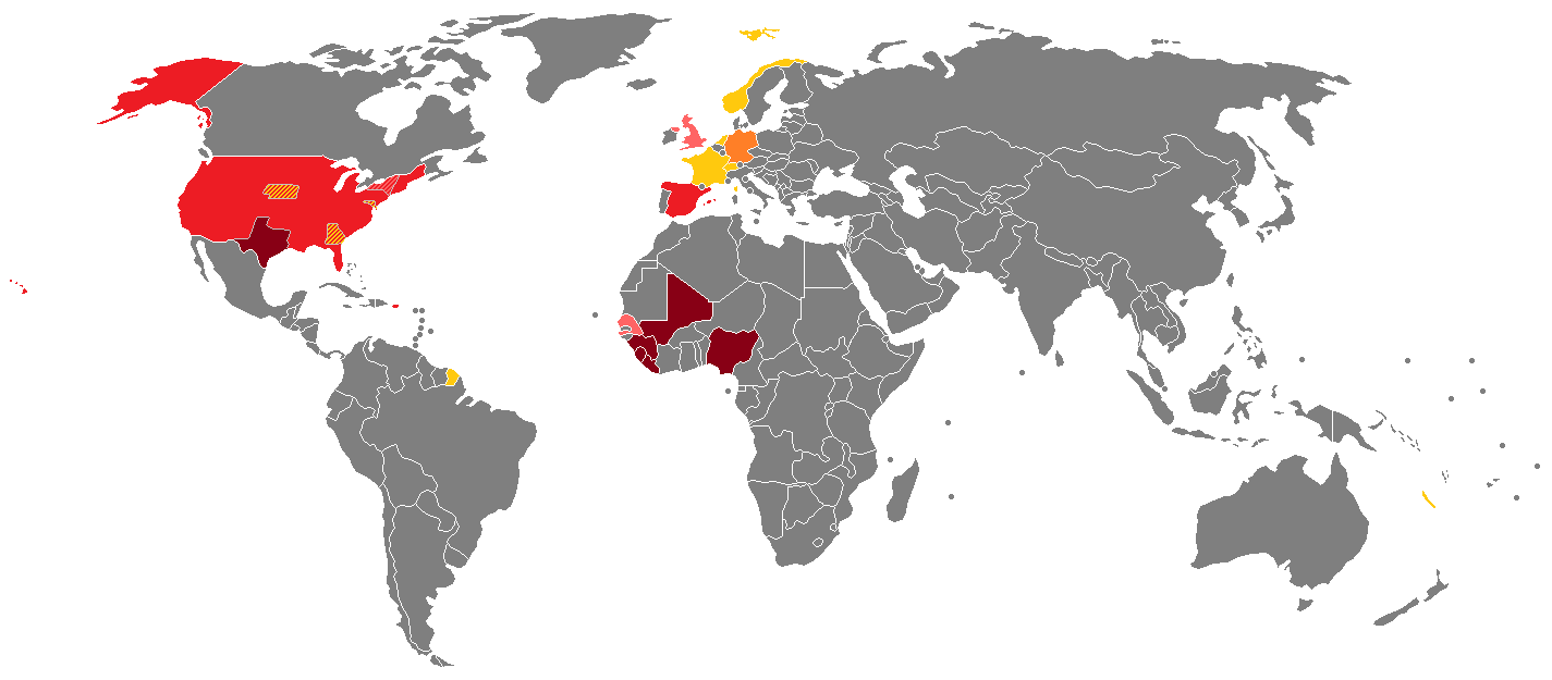 This map shows the Ebola hemoragic fever disease progress in the world. contamination and death cases spotted contamination cases spotted import cases without following contamination spotted death of repatriate citizen/expert repatriation of contaminated citizen/expert